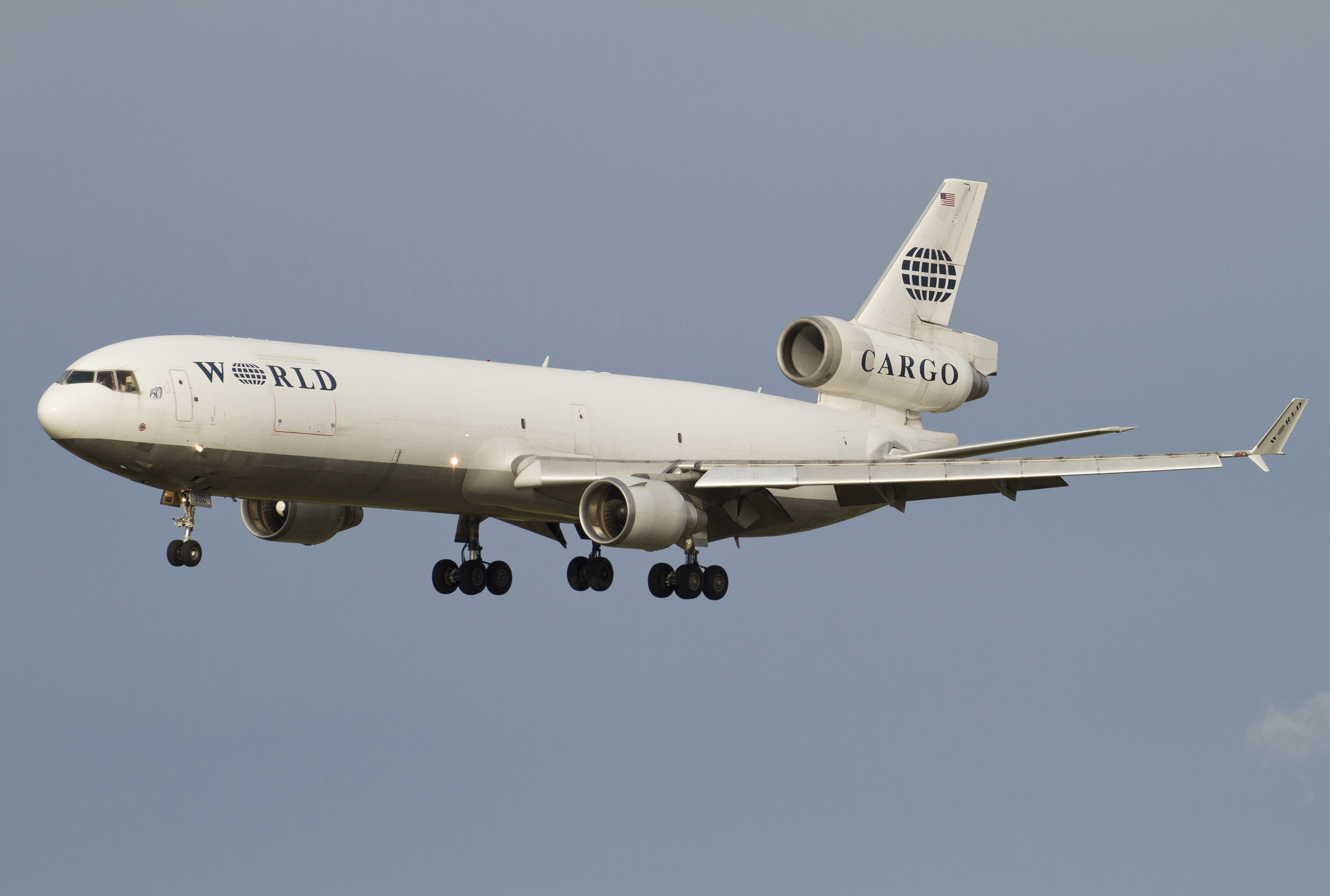 World Airways MD-11 N380WA arrives at Stockholm - Arlanda Airport against dark skies in background